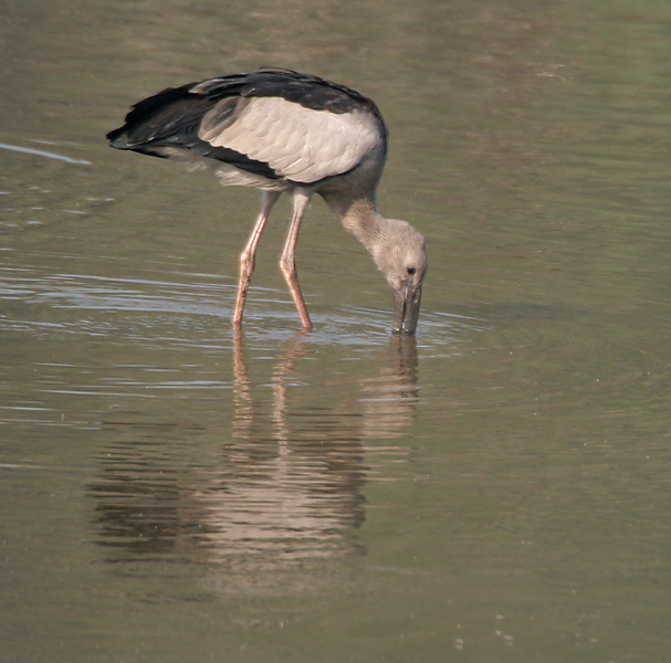 Asian Openbill Anastomus oscitans in Kolkata, West Bengal, India.